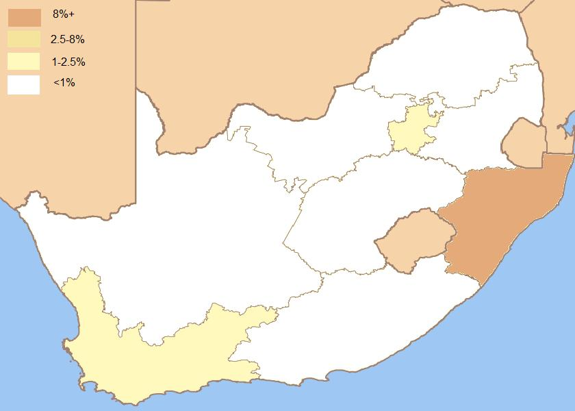 Indian population of south africa by province